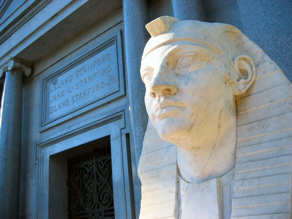 Stanford Mausoleum. Taken by Jawed Karim on November 20th, 2004. )